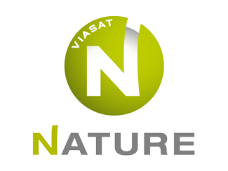 Logo Viasat Nature, tv channel